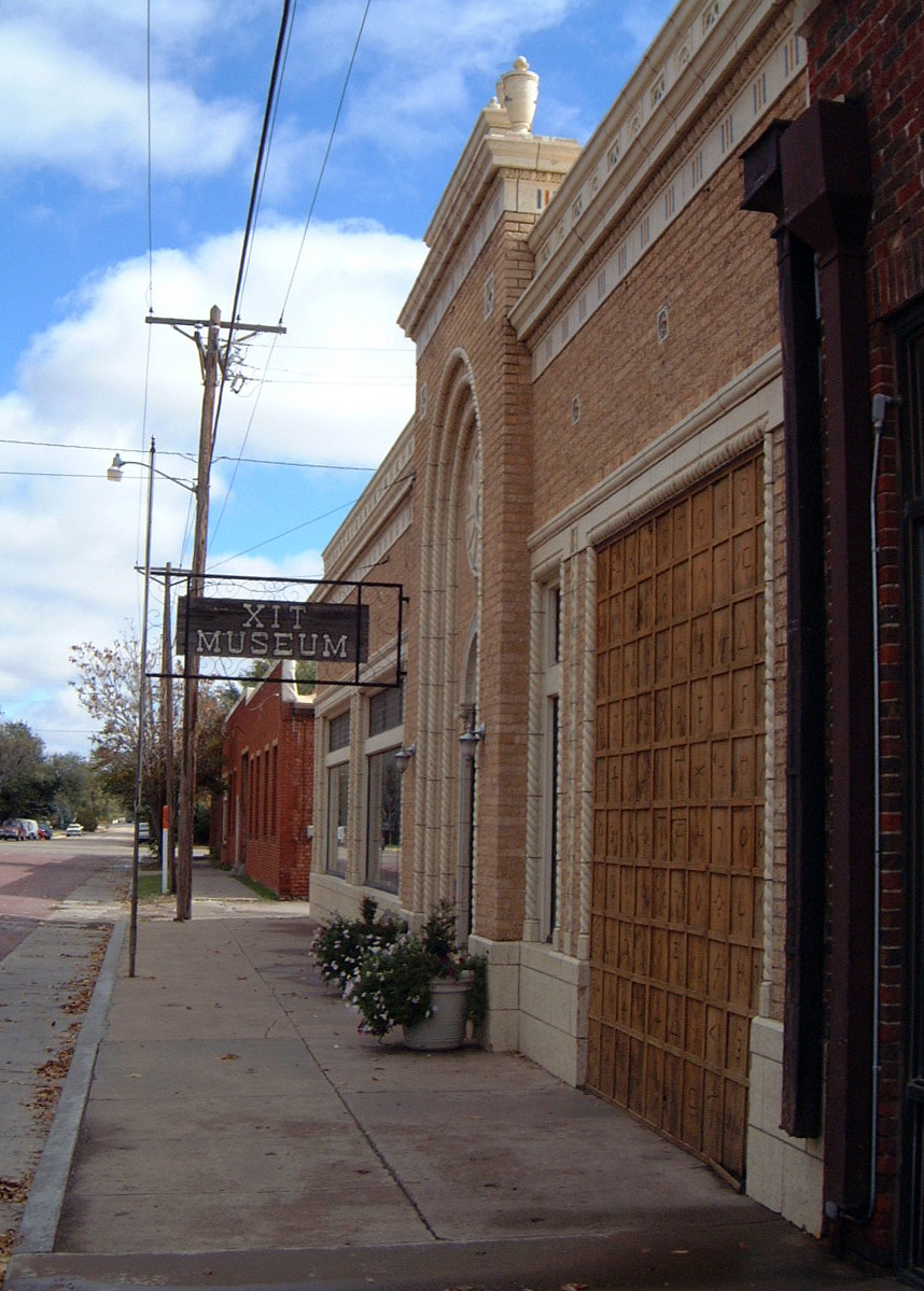 The XIT Museum located in Dalhart, Texas.